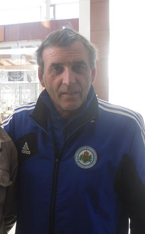 Giampaolo Mazza in Warsaw before match against Poland in FIFA World Cup qualification 2014.